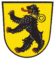 Coat of Arms of Dornum